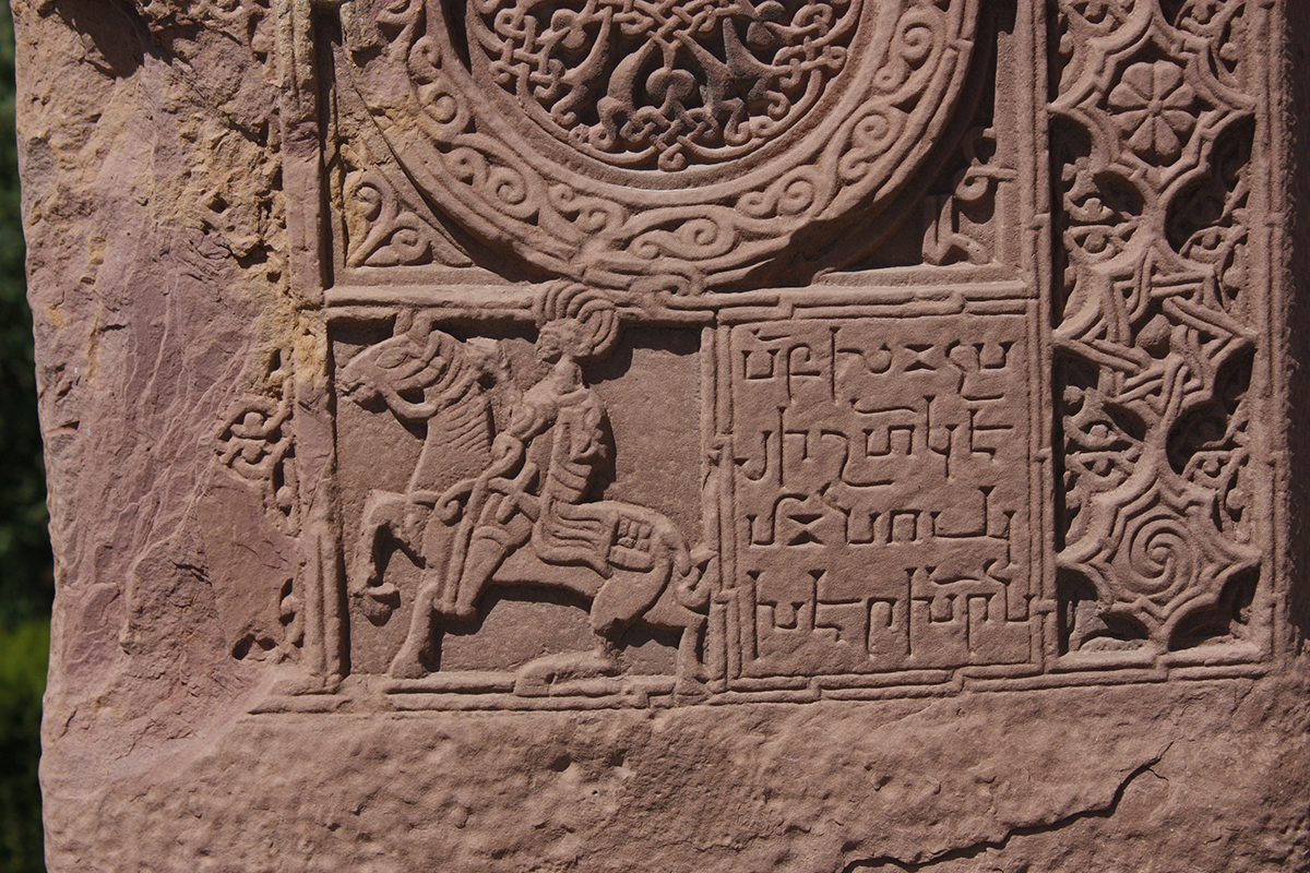 AH - Khatchkar in Jugha, Triskelion Eternity sign